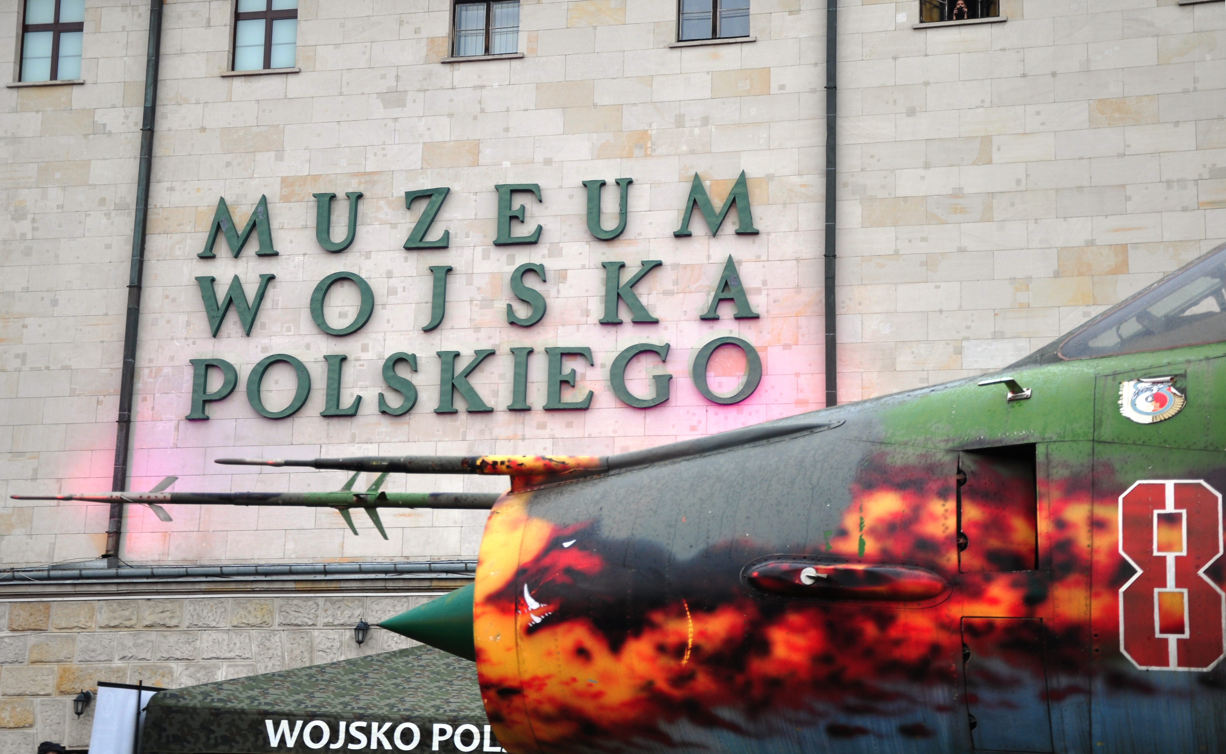 Polish Military Museum in Warsaw, entrance.